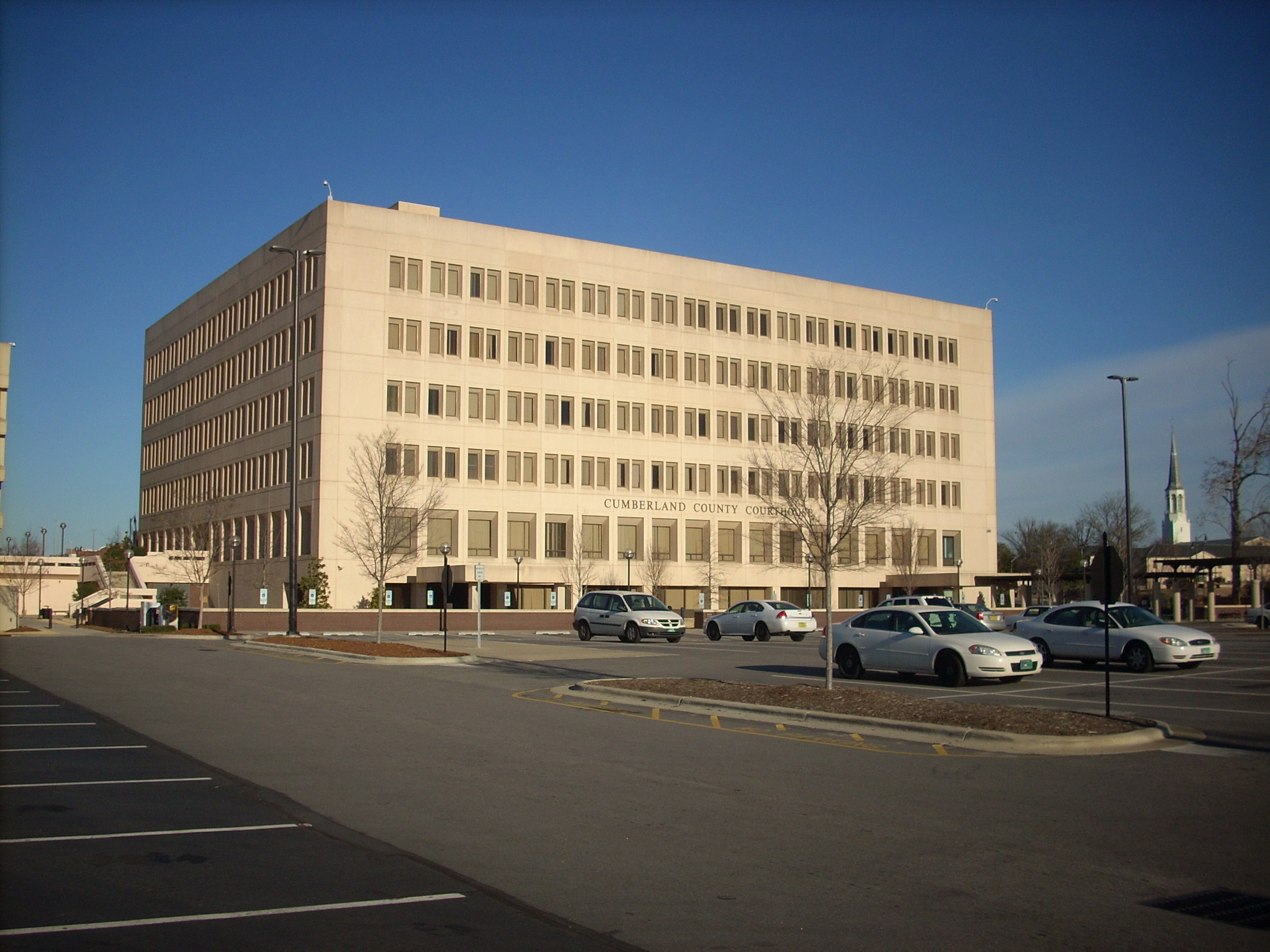 Rear view of the Cumberland County Courthouse in Fayetteville, NC